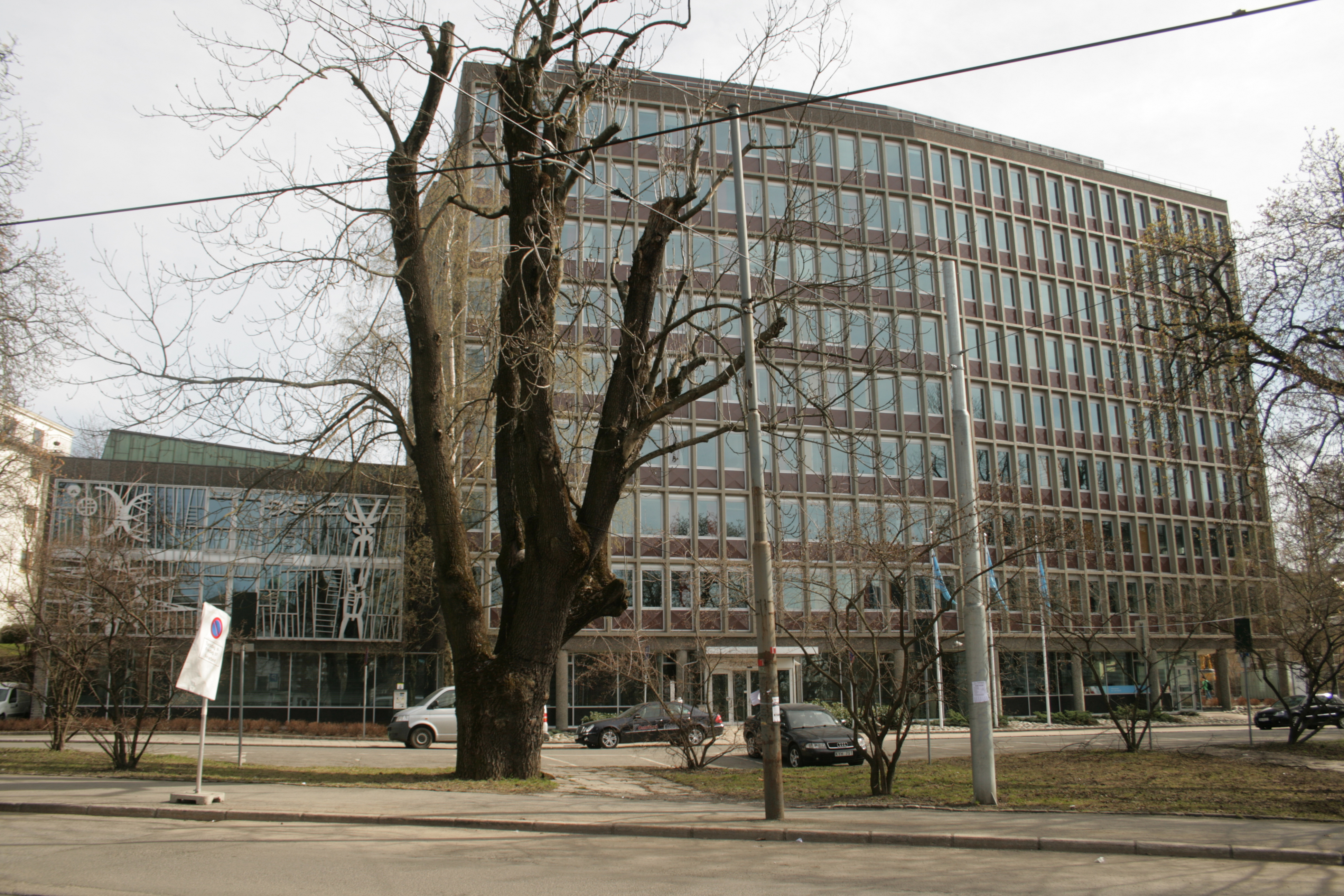 Office building at Drammensveien 60 in Oslo. Built as main offices for the Rikstrygdeverket (National Insurance Service). Now offices for the construction company Skanska. Erected 1960, architects F.S. Platou AS. Decoration at the side building by Arne E. Holm.